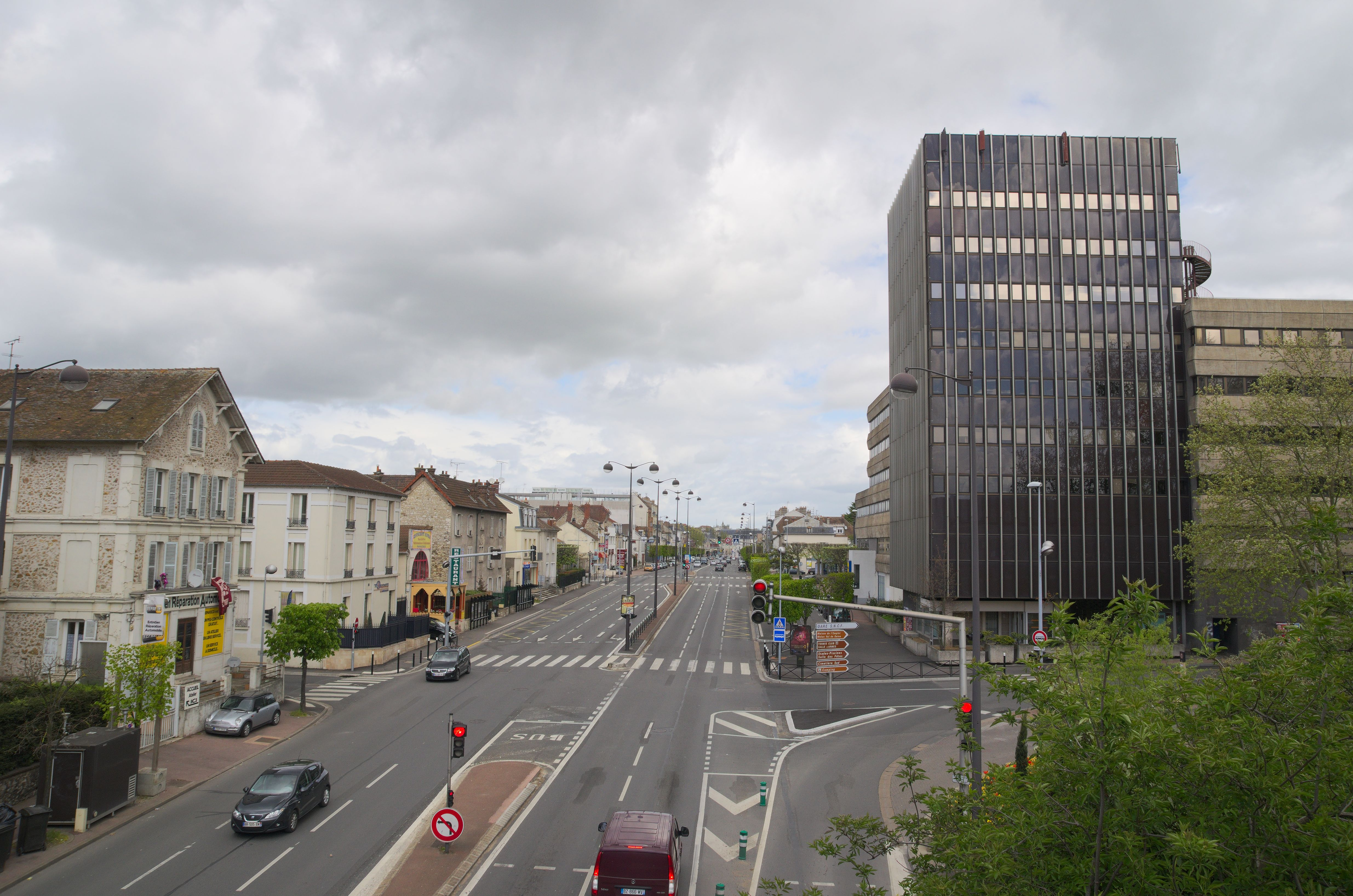 Thiers Avenue, in reference to the man that massacred thousands of Paris commuards, and Gallieni tower in Melun, Seine-et-Marne, France, from the Railway station bridge.